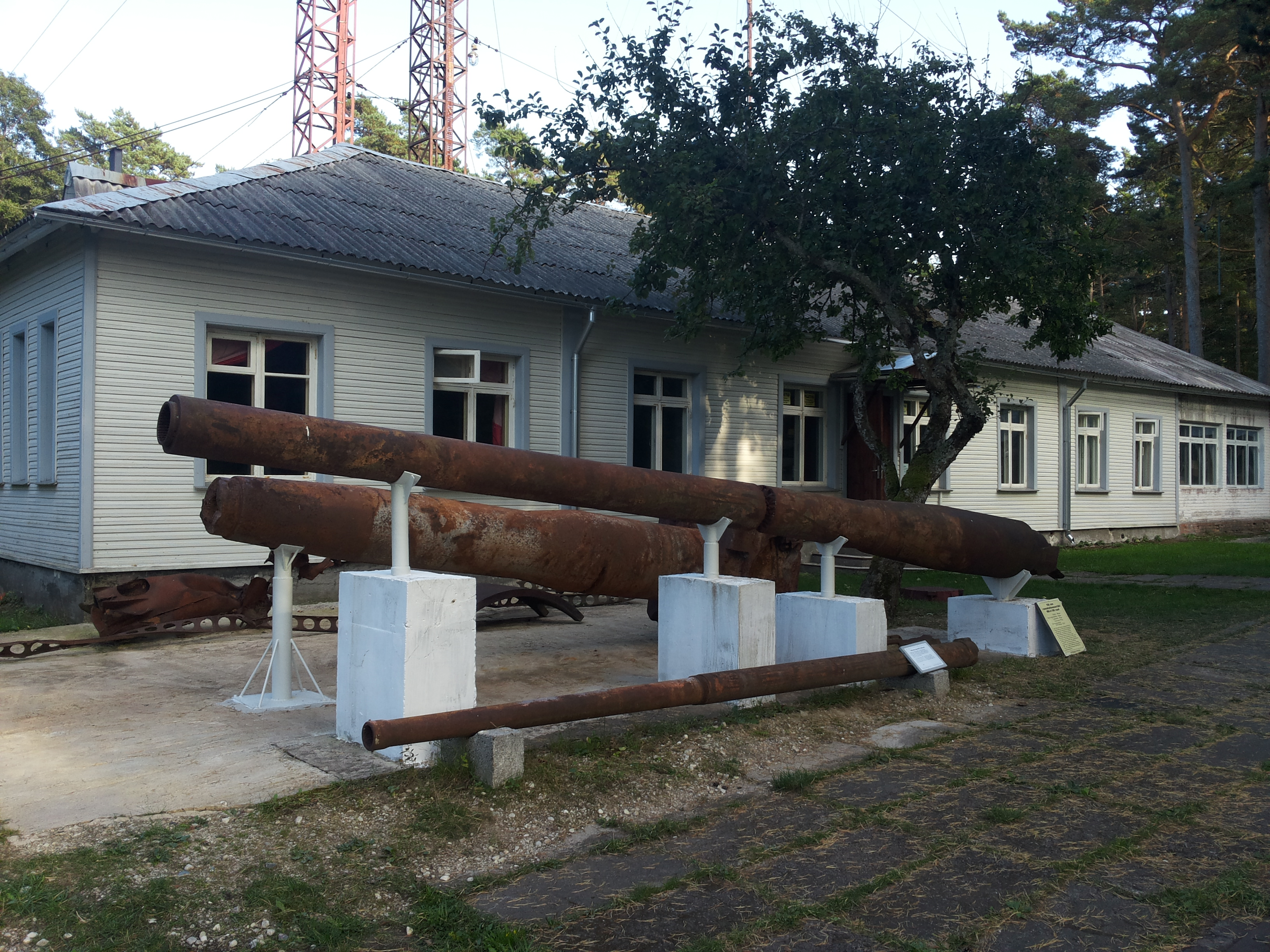 Hiiumaa Military Museum